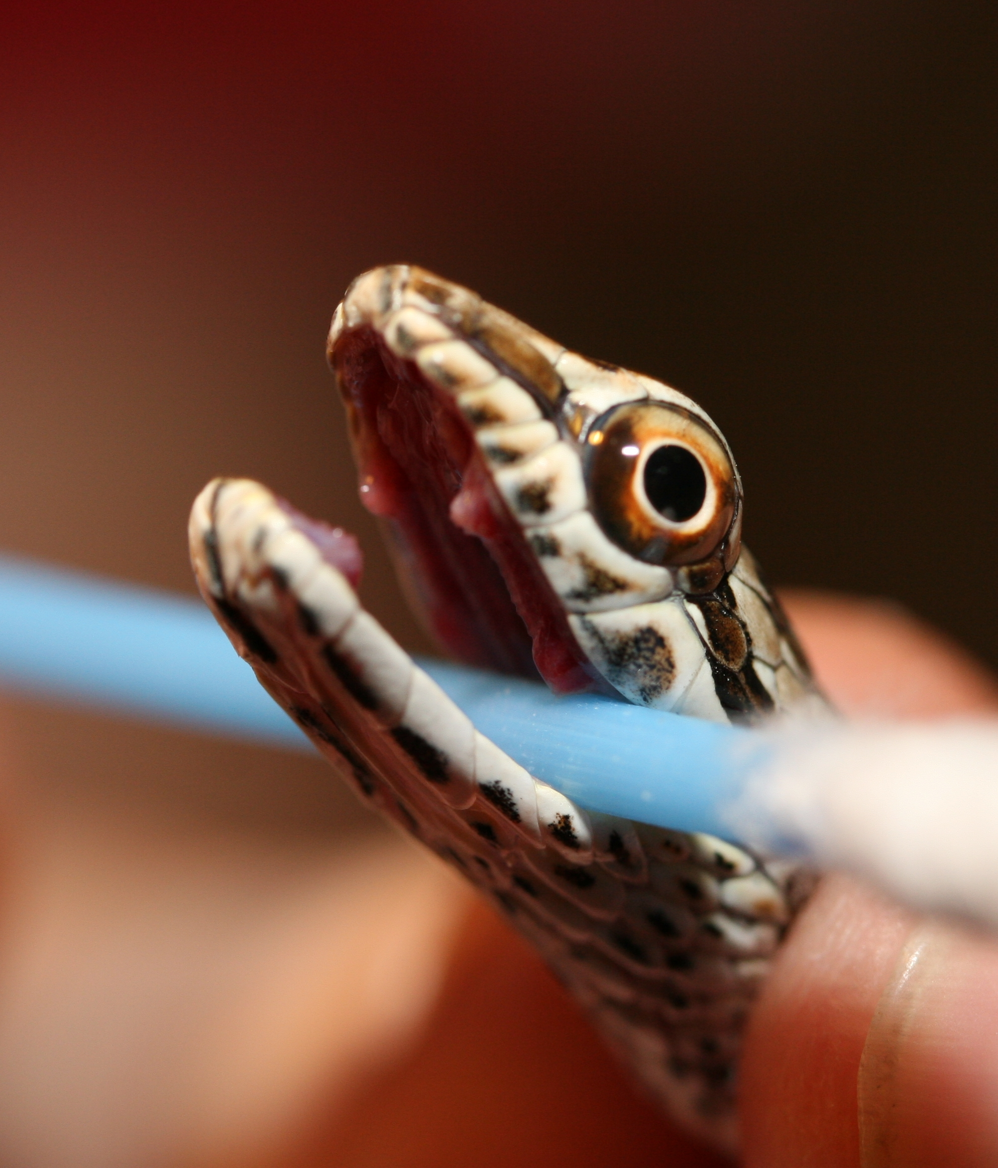 Psammophis schokari snake in private collection of Jakub Seif. Poison's teeth are visible